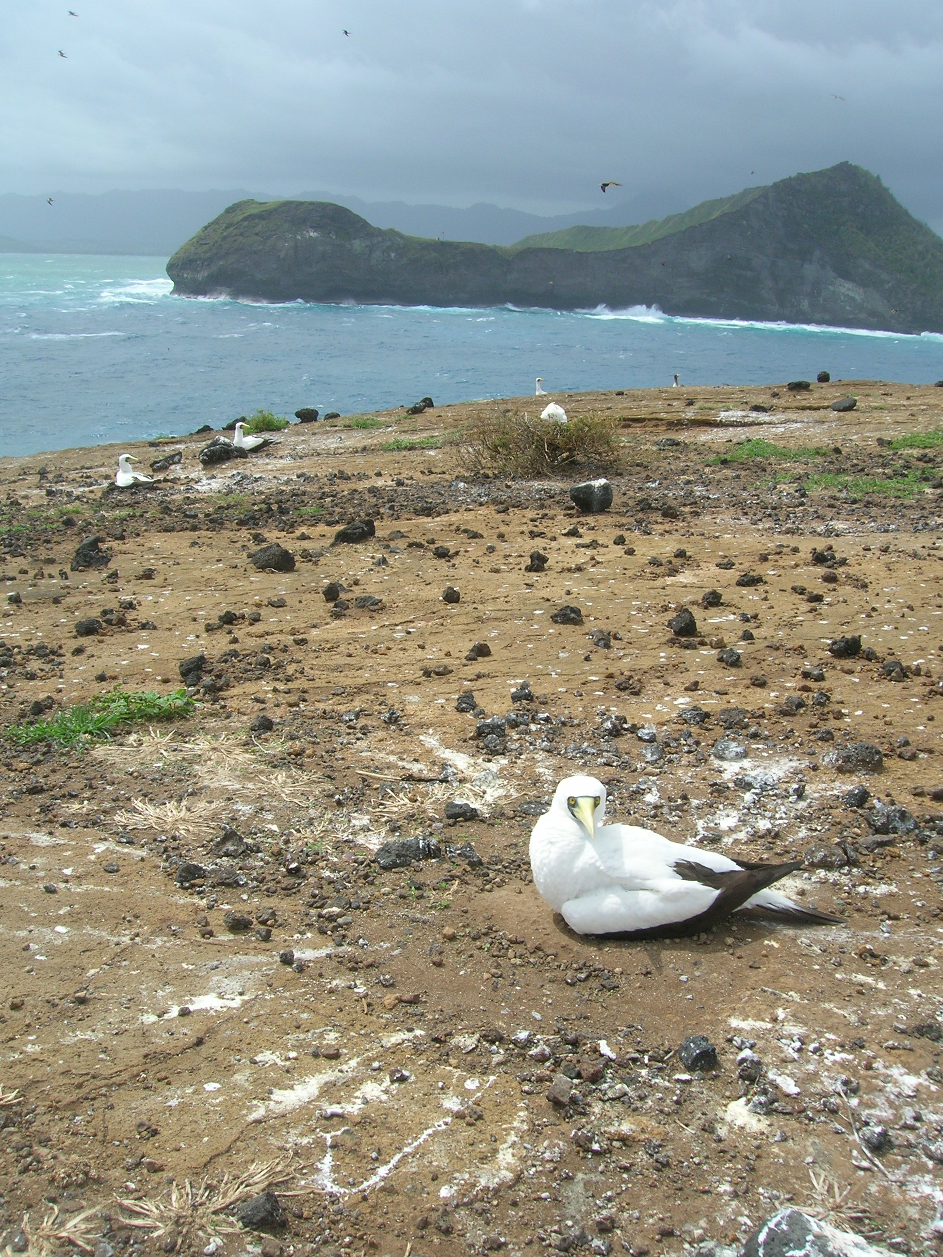 Eleusine indica (with masked booby). Location: Oahu, Moku Manu